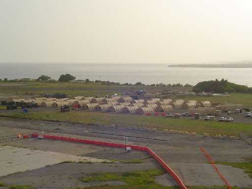 Site of "Camp Justice", Guantanamo, where the military commissions will be convened.